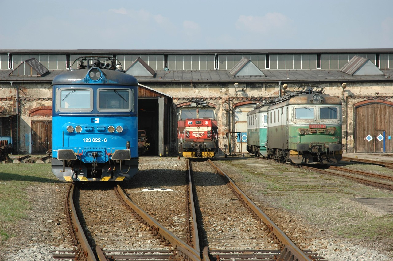 ČD Cargo depot at Ústí nad Labem; locomotives 123.022, 111.033, 123.024